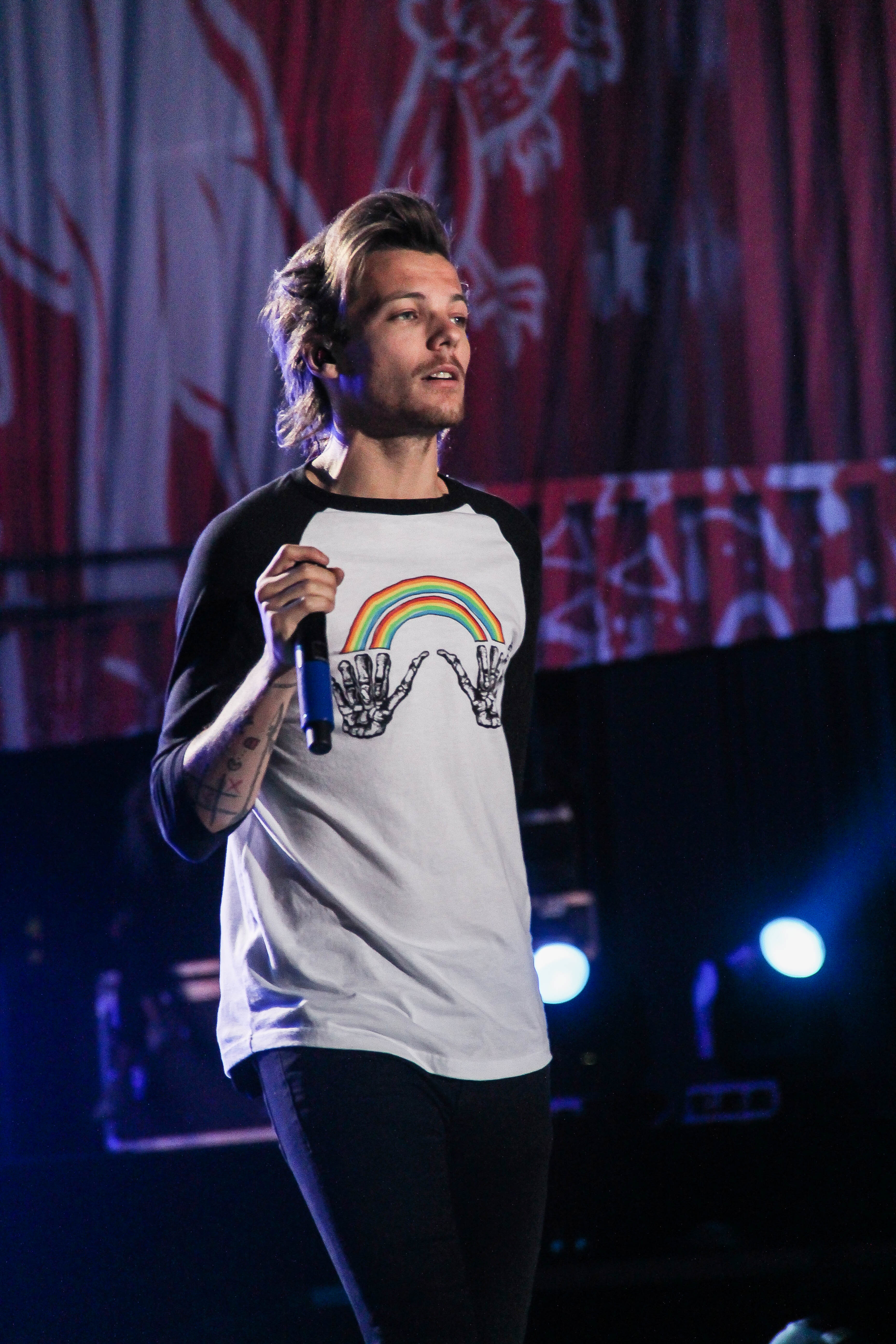 Louis Tomlinson in concert (WWAT 2014) - Chile